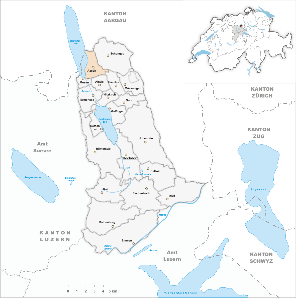 Municipality Aesch